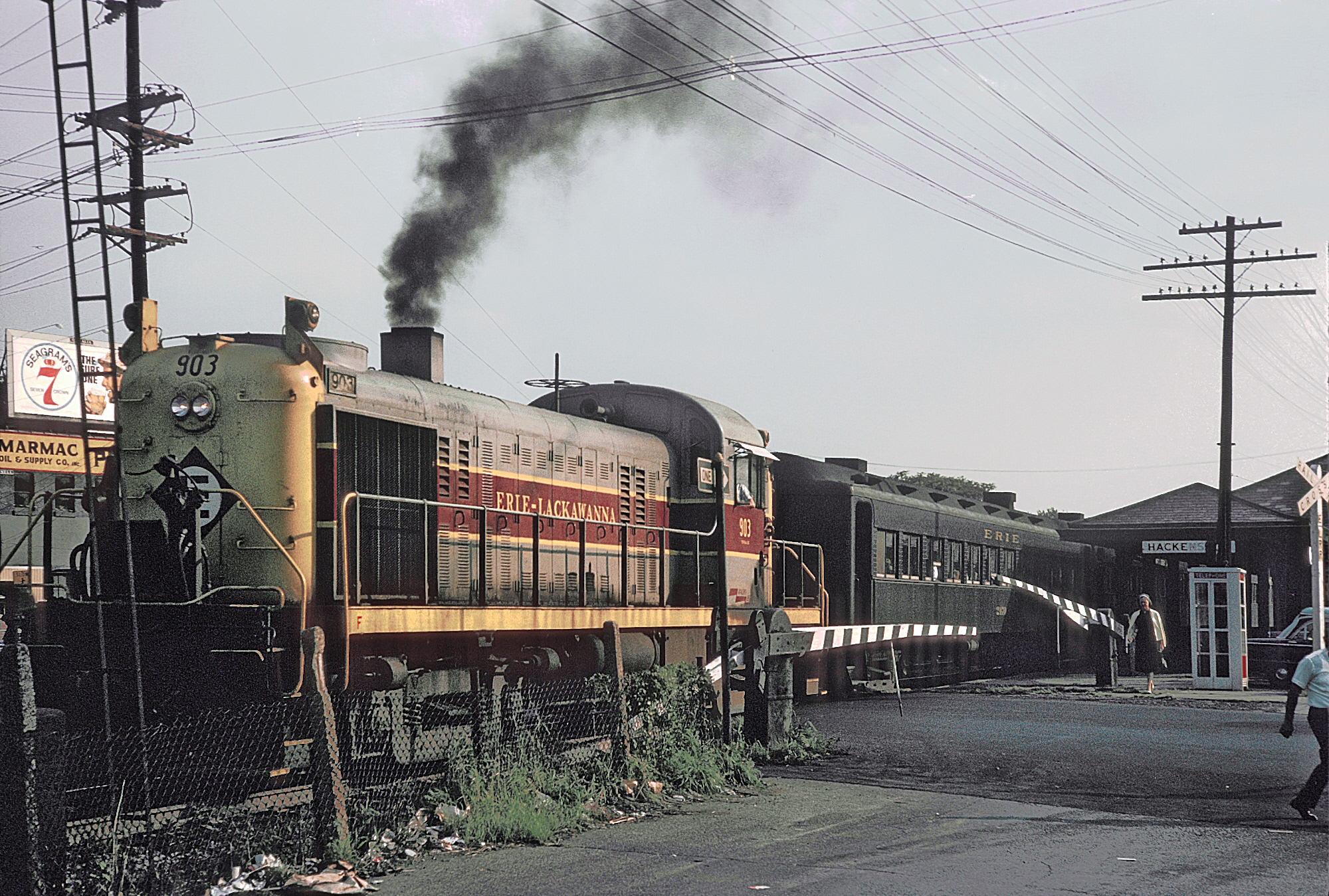 An RS-2 built 9/49 A Roger Puta photograph.